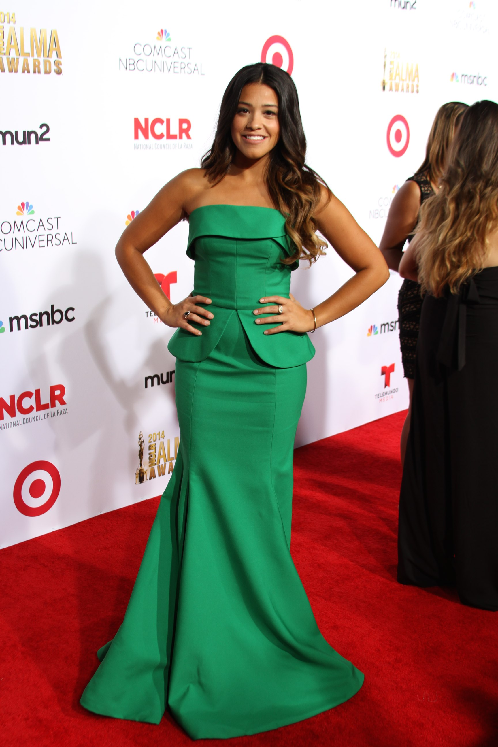 Actress Gina Rodriguez at the 2014 Alma Awards